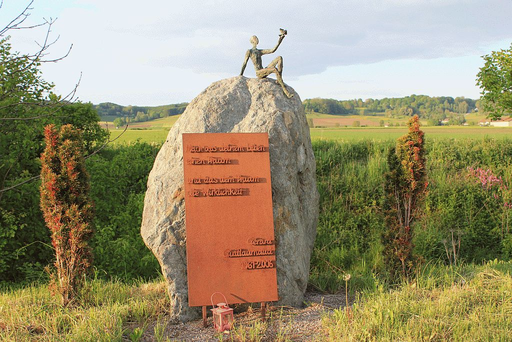 The memorial for test pilot Gérard Guillaumaud in Mattsies - Germany in 2012.